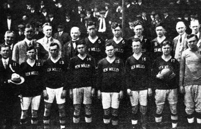 The Ben Miller soccer team. The team was disbanded in 1935.